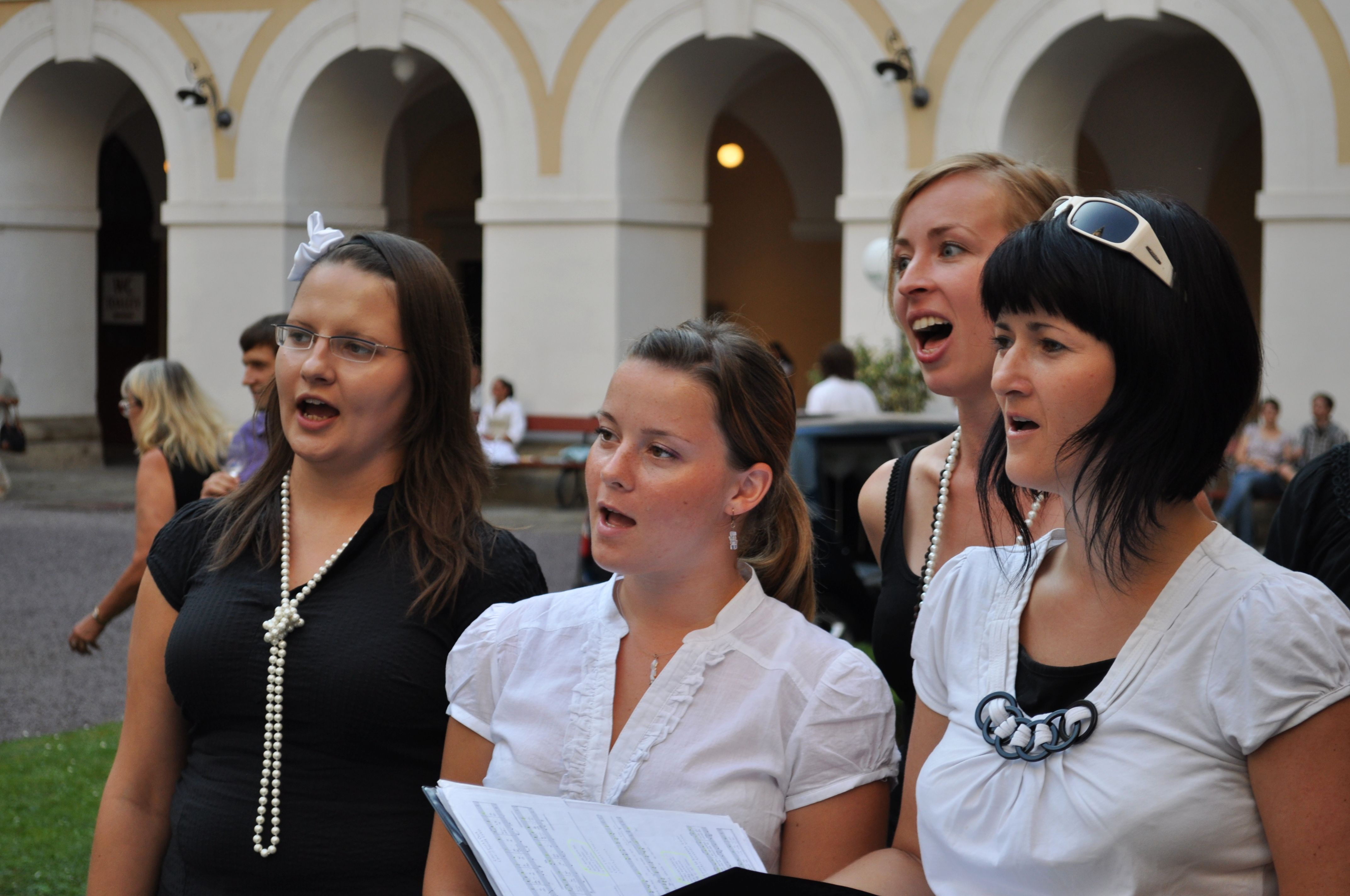 Zesrandy Choir performing at Kroměříž Chateau